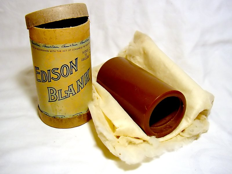 Edison brown wax cylinder blank for home recording, circa 1900